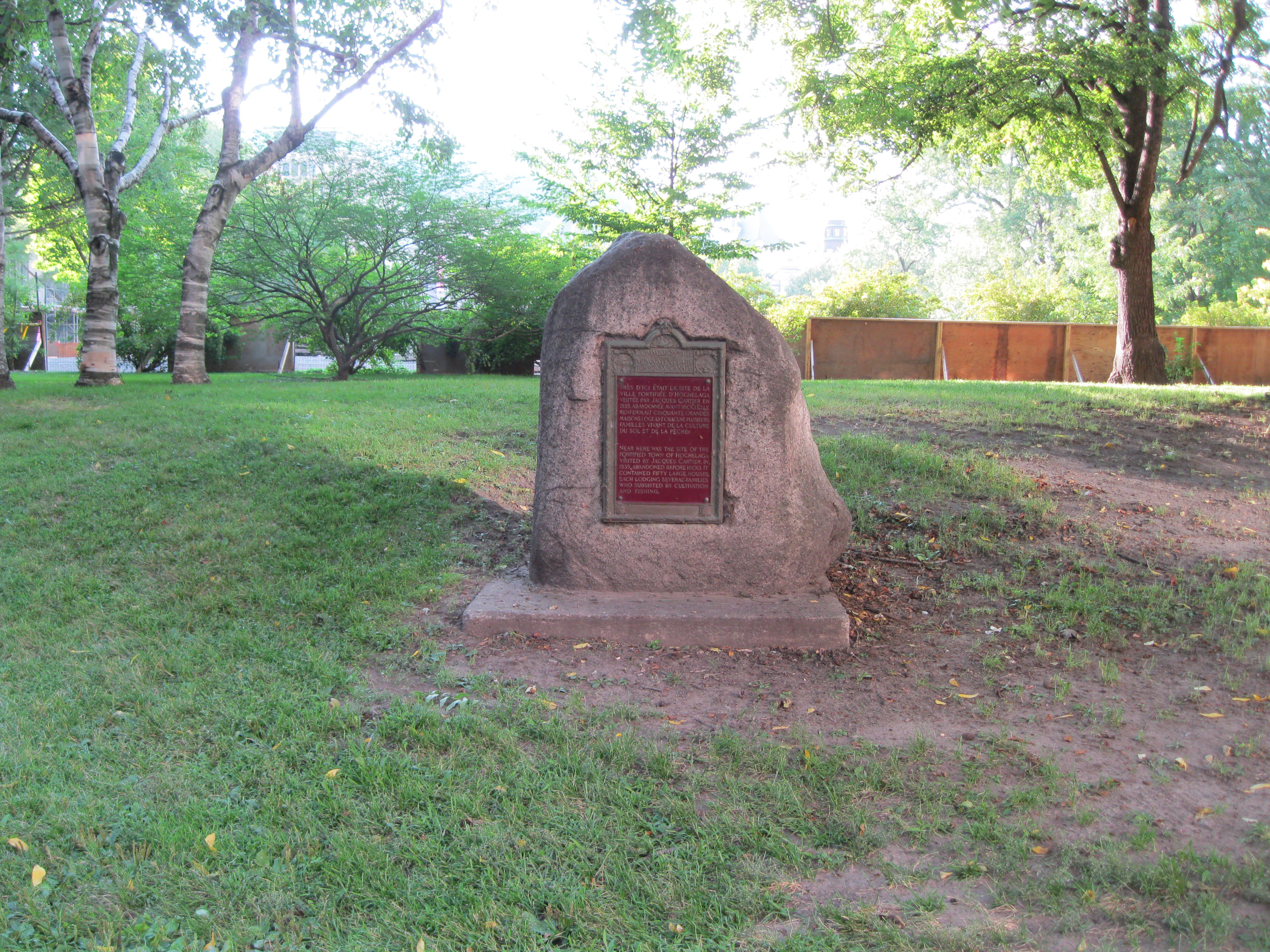 Hochelaga National Historic Site of Canada is a cultural landscape recalling a former Iroquois village, consisting of a grass-covered space about 79 square metres in area.